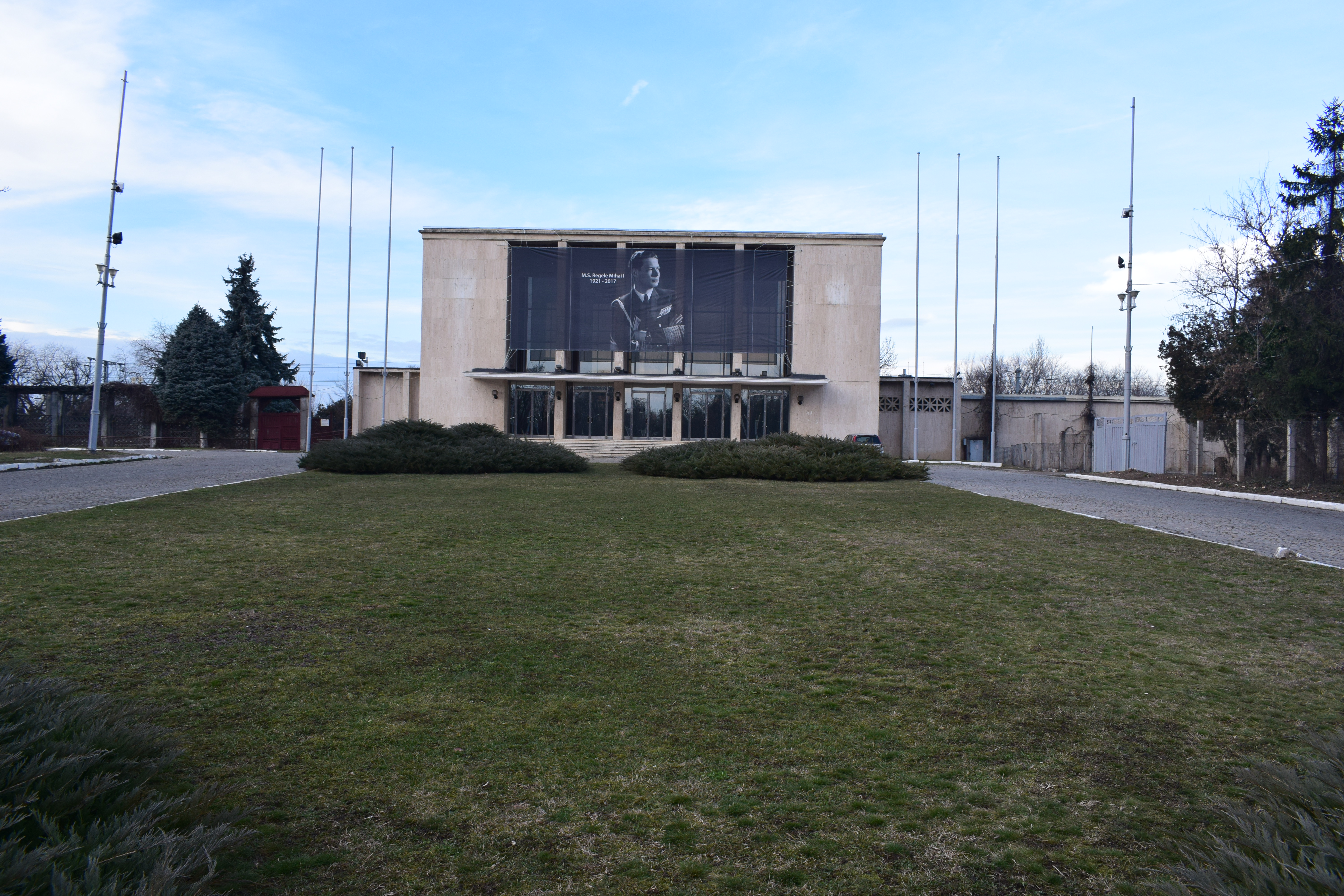 Băneasa Royal Railway Station in Bucharest, adorned with a funeral banner for HM King Michael I of Romania